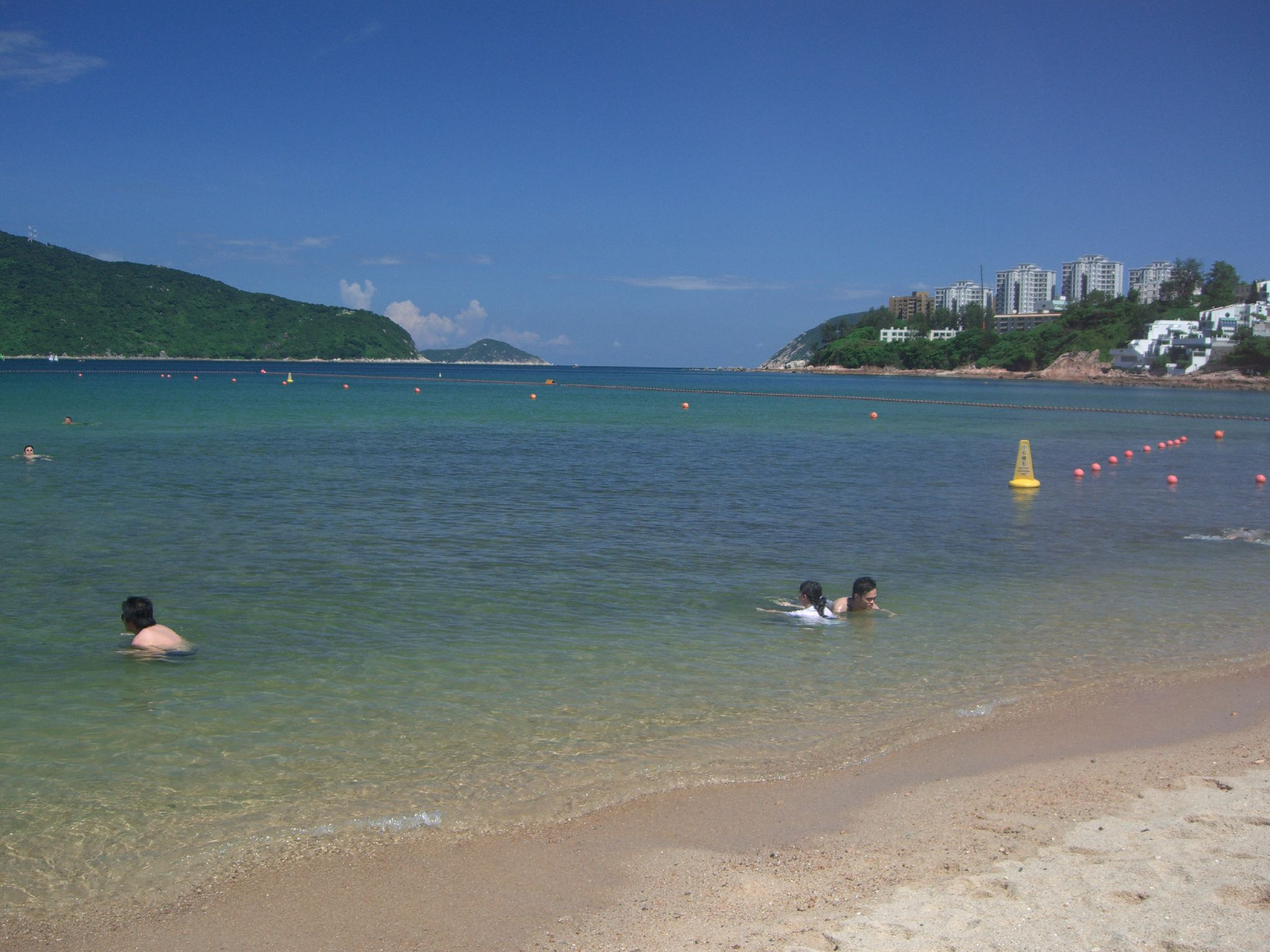 Stanley Beach.